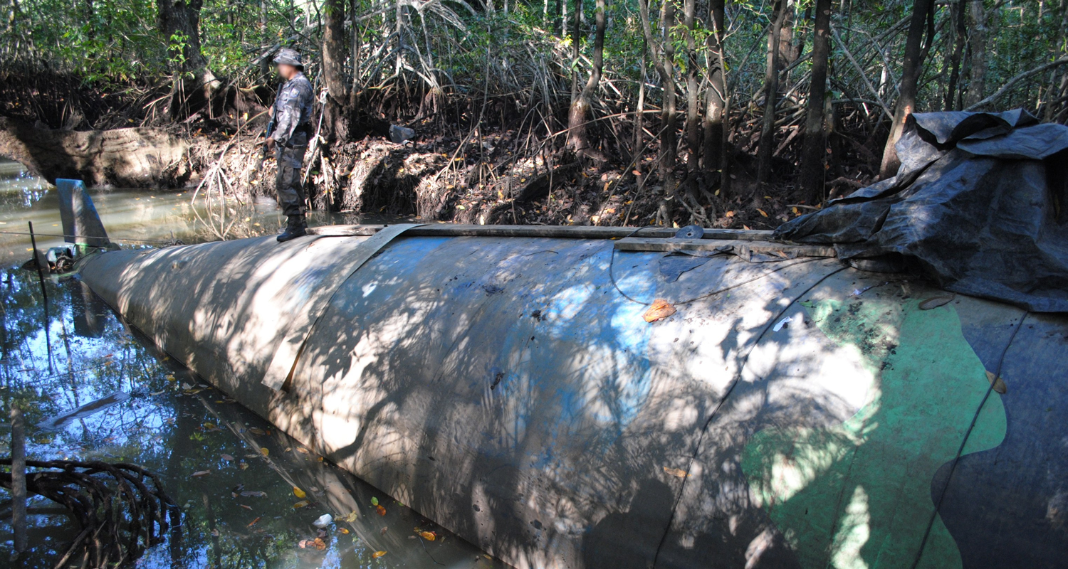 A fully-operational submarine built for the primary purpose of transporting multi-ton quantities of cocaine located near a tributary close to the Ecuador/Colombia border that was seized by the Ecuador Anti-Narcotics Police Forces and Ecuador Military authorities with the assistance of the DEA.